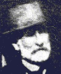 František Albert